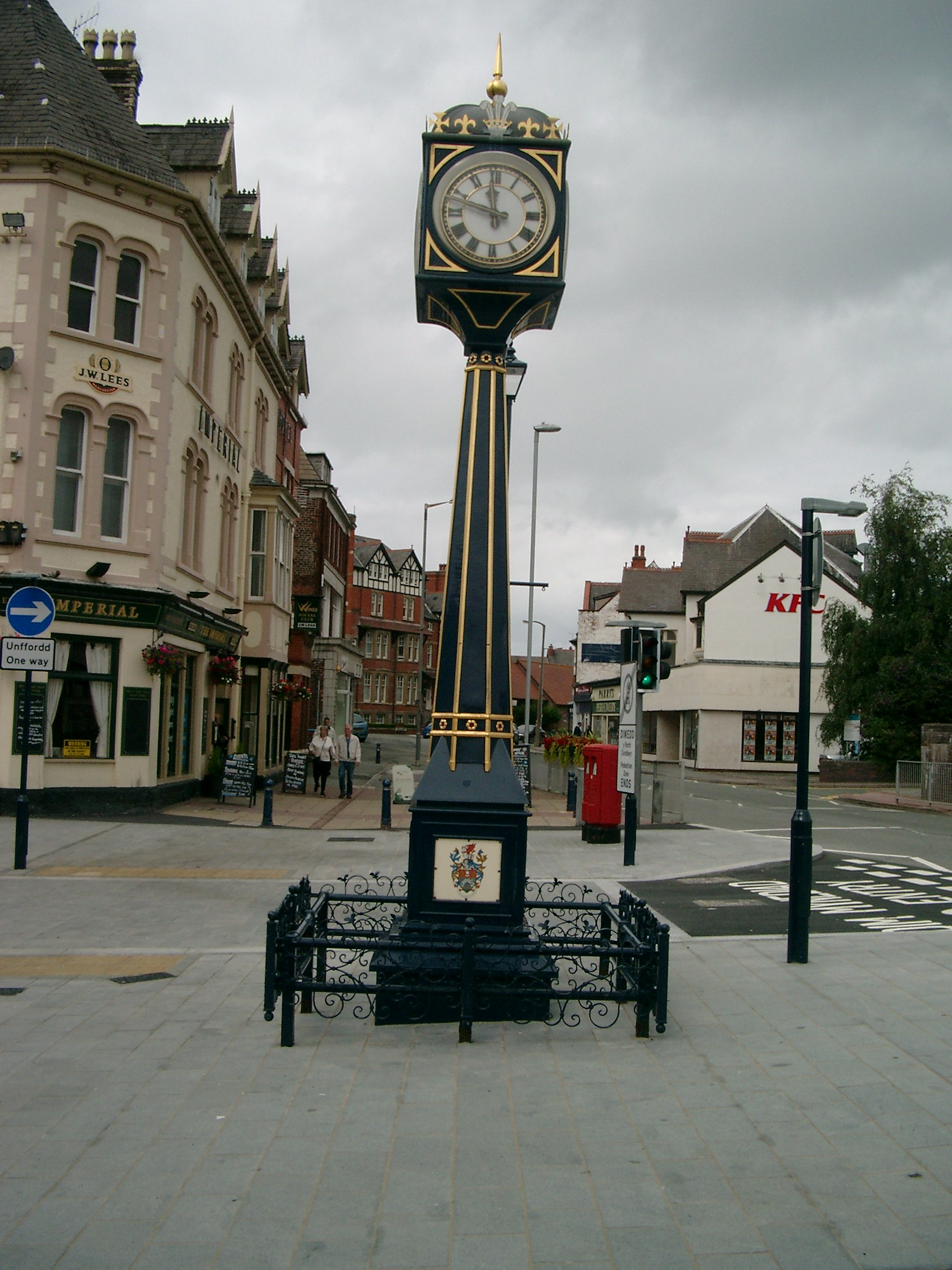 Clock at Colwyn Bay town centre, North Wales.